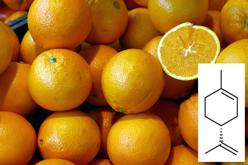 Chemical structure of limonene on orange fruits, from which limonene can be obtained.